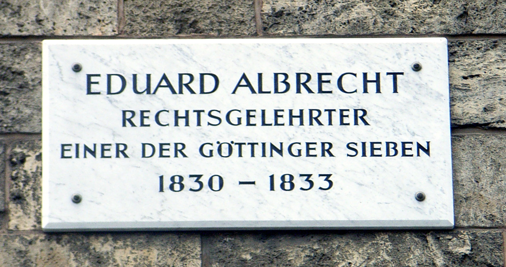 This image shows a informationsign in Göttigen.